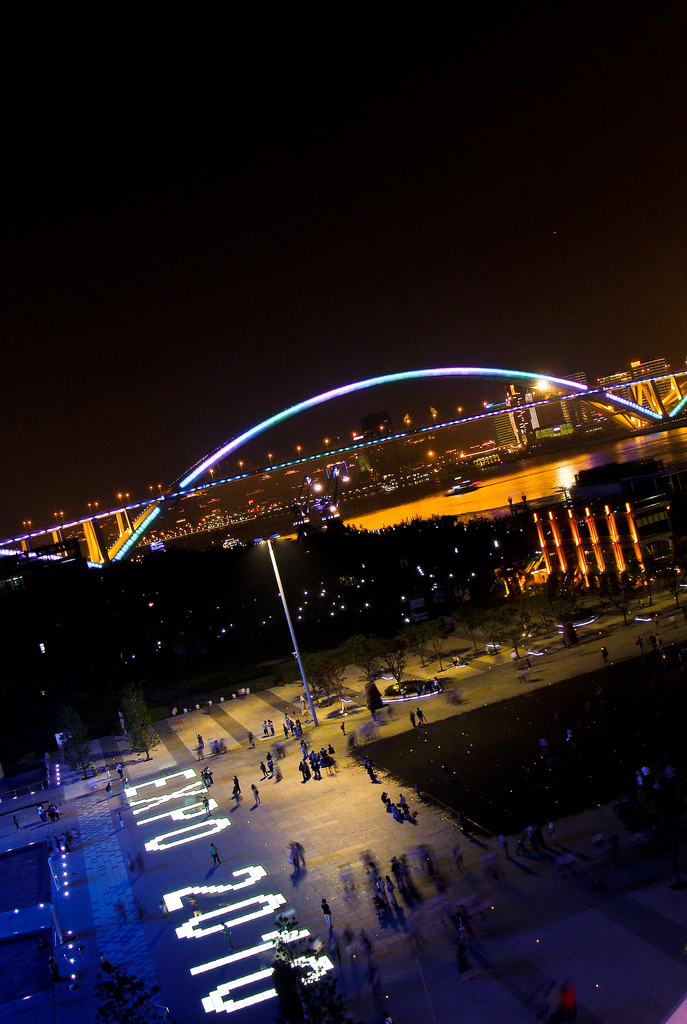 Lupu bridge(卢浦大桥) during Shanghai Expo 2010; as seen from the Expo Cultural Center(世博文化中心). Opened in June 28, 2003, Lupu bridge spans across the Huangpu River as the longest arch bridge in the world. The Lupu Bridge is currently the second longest arch bridge, only behind Chaotianmen Bridge in Chongqing, China.